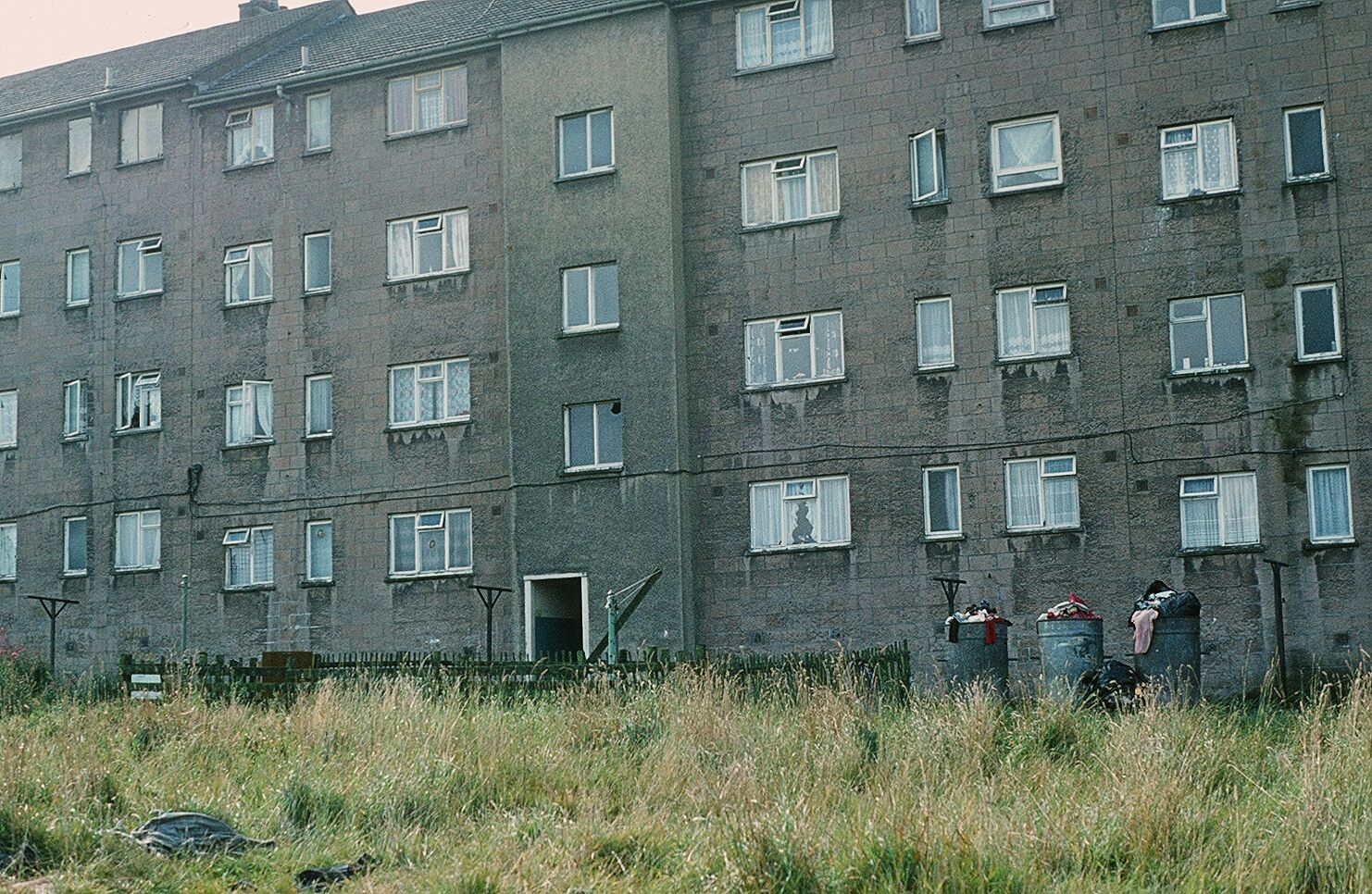 Castlemilk public council estate building in 1983